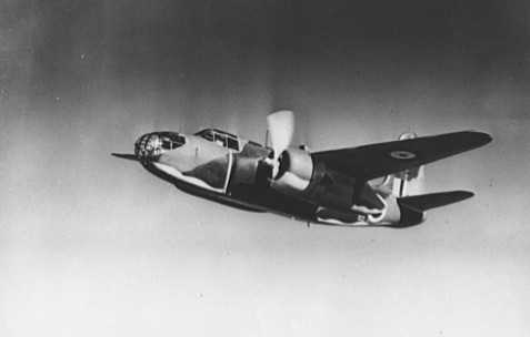 A Douglas DB-7 Boston of the Royal Air Force on a test flight after delivery in the United States.